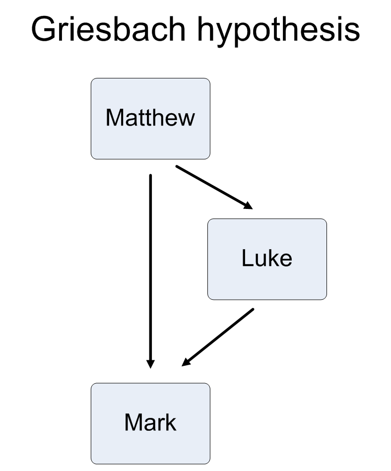 The Griesbach hypothesis solution to the Synoptic problem